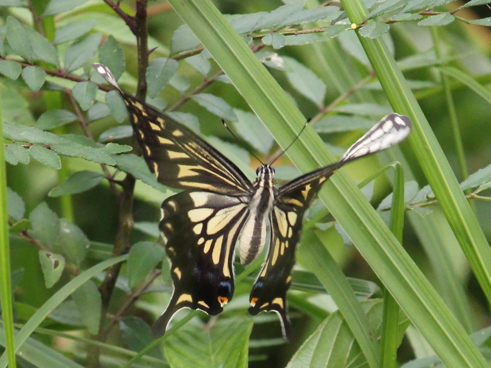 Papilio xuthus in flight, in Yokkkaichi, Mie prefecture, Japan.